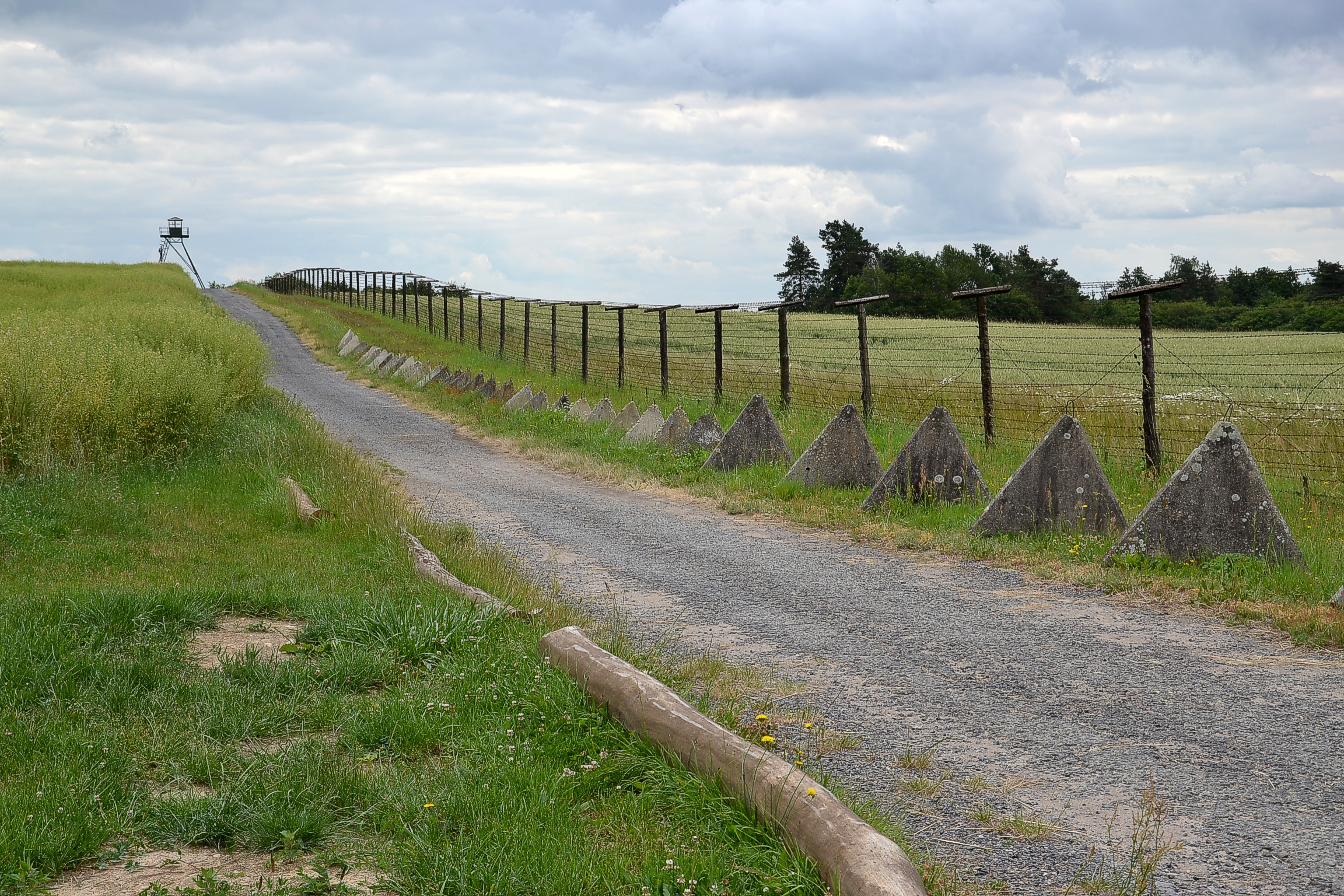 Čížov (Zaisa), Moravia - preserved part of Iron curtain